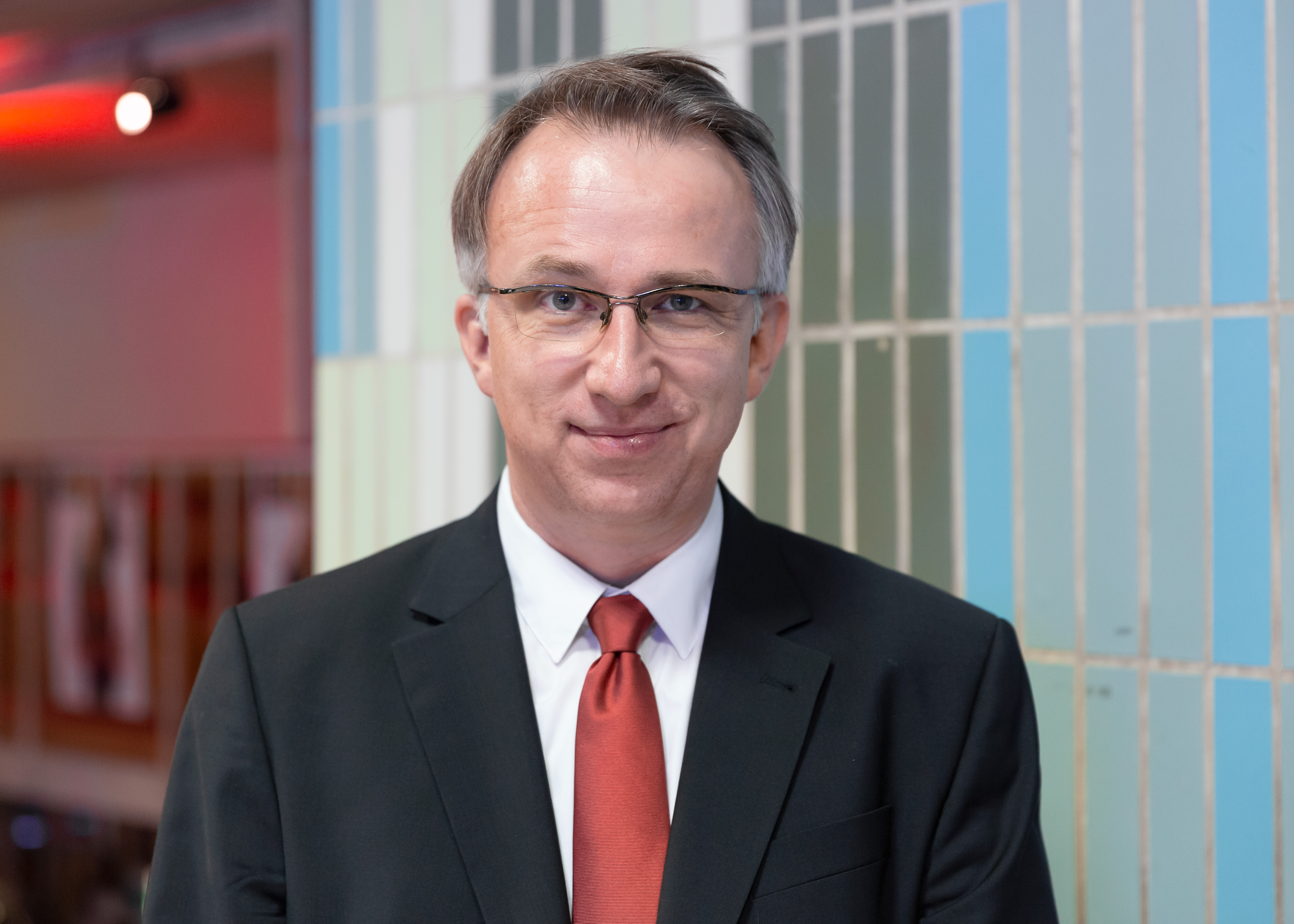 Peter Klien at the premiere of Anna Fucking Molnar at Gartenbaukino in Vienna.